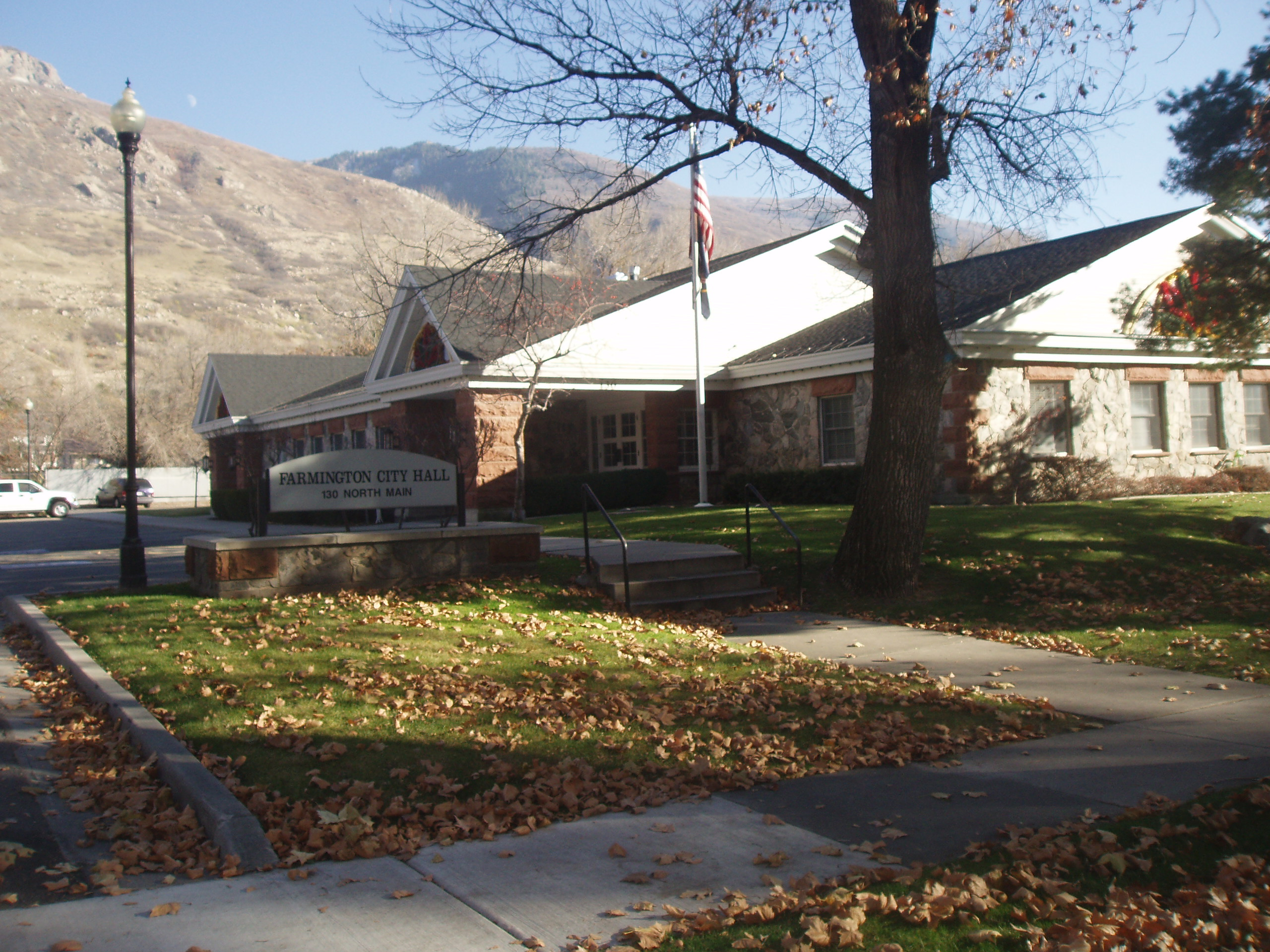 This building was the Farmington City Hall, Farmington, Utah, United States, until a new building was built in 2010.